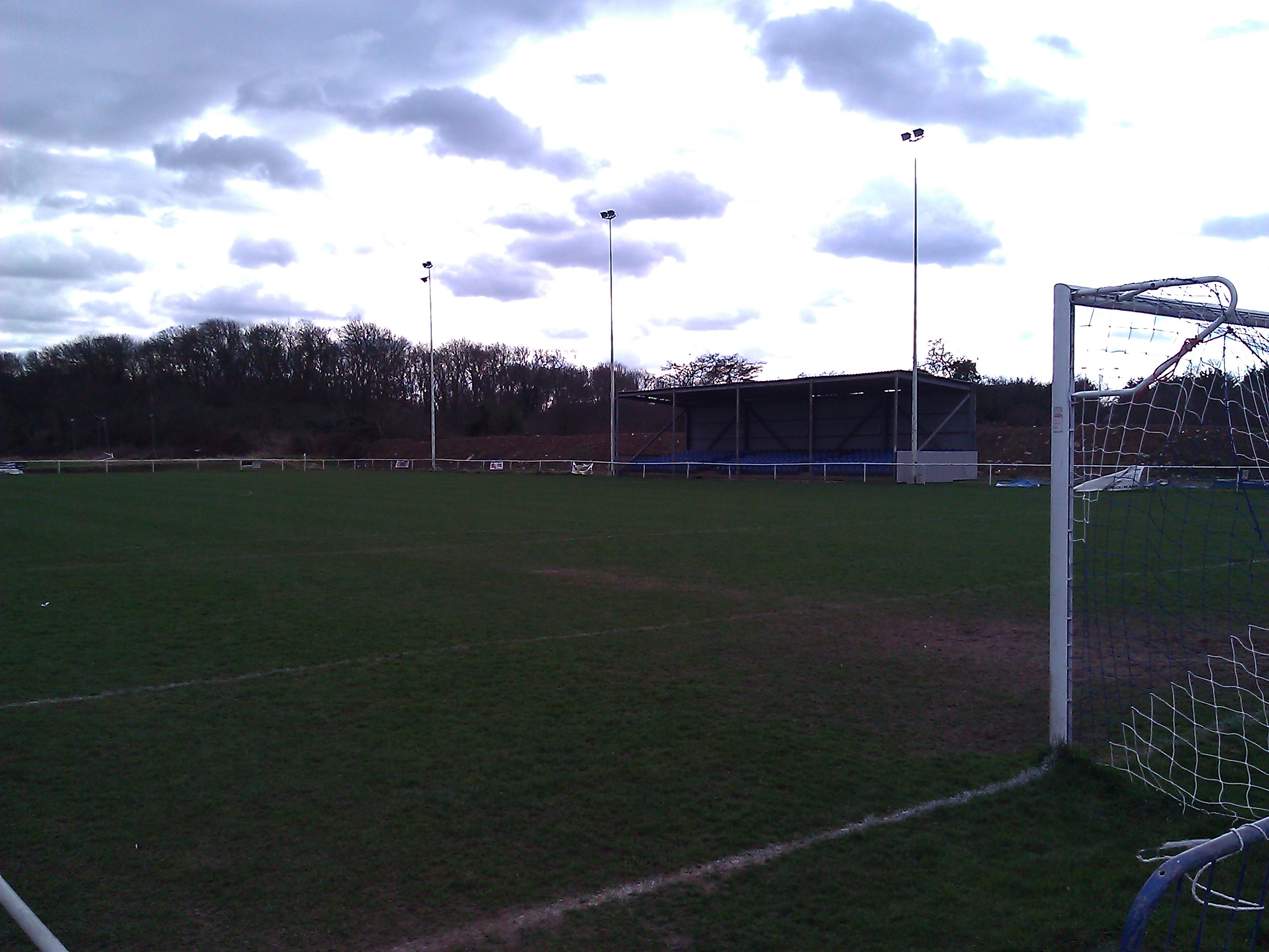 Home stadium of Broxbourne Borough V. & E. F.C.. I took the photo myself today.